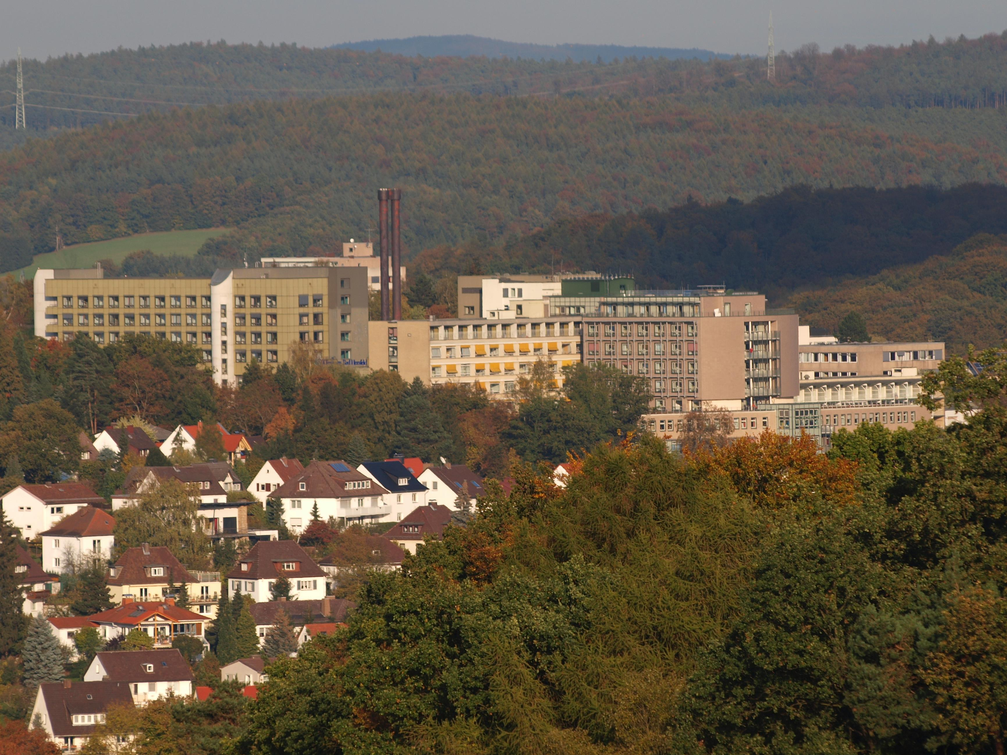 Clinical center Bad Hersfeld